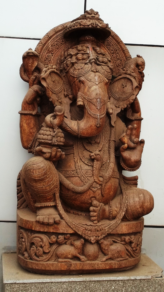 Odia stone carving of Ganesa (Ganesha) in Bhubaneswar, Odisha. This media file is uploaded with Odia loves Wikipedia